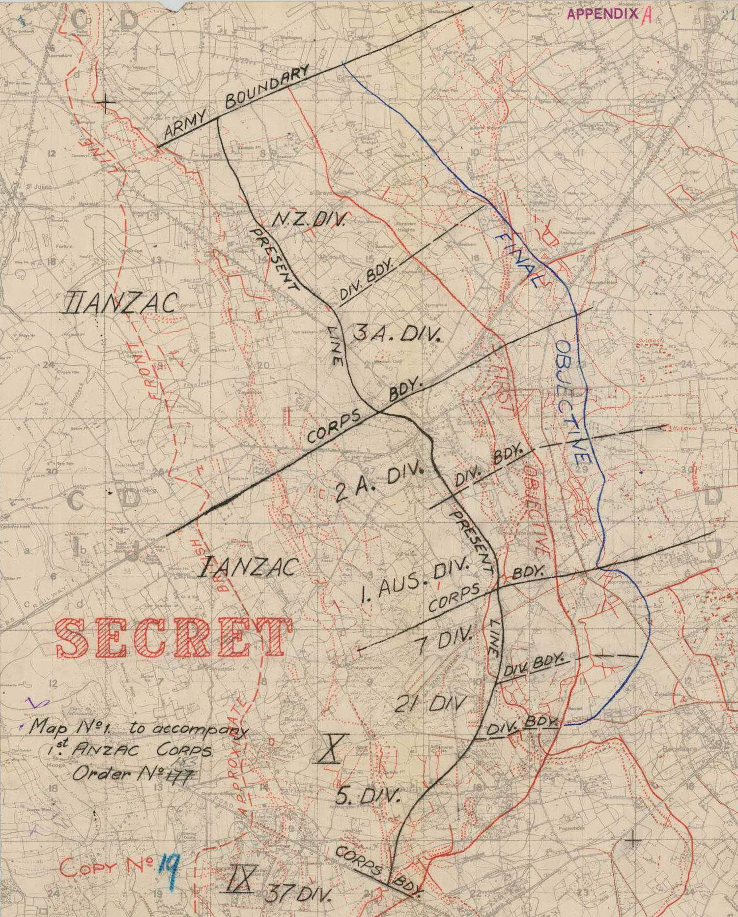 Rough planning map showing disposition of attacking Corps and Divisions and various boundary lines.